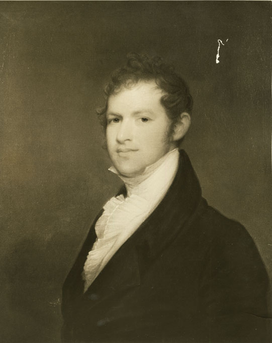 Photograph of portrait of Andrew Dexter